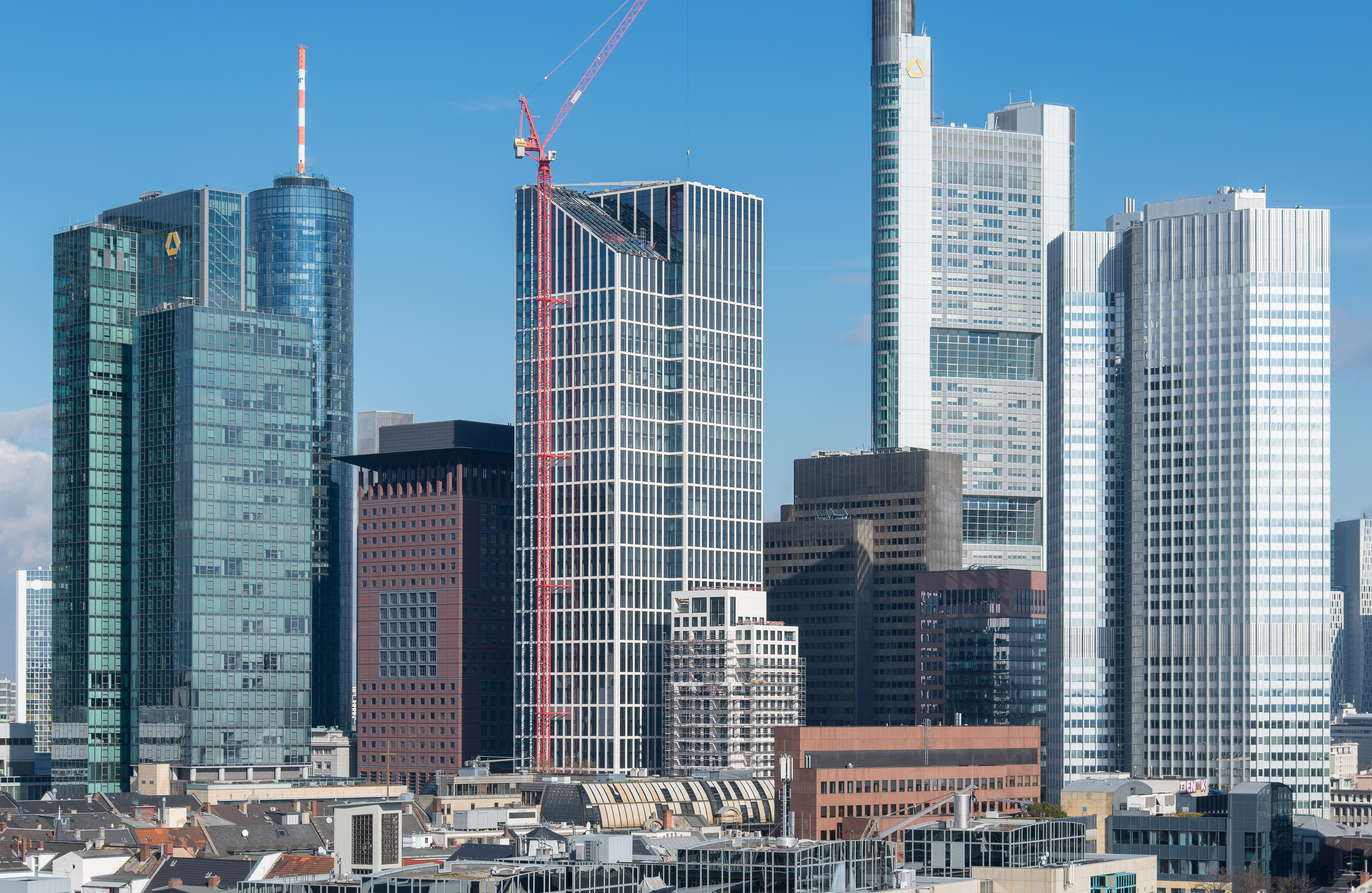 Frankfurt am Main, Taunusturm towers with their close neighbours in the central bank district.